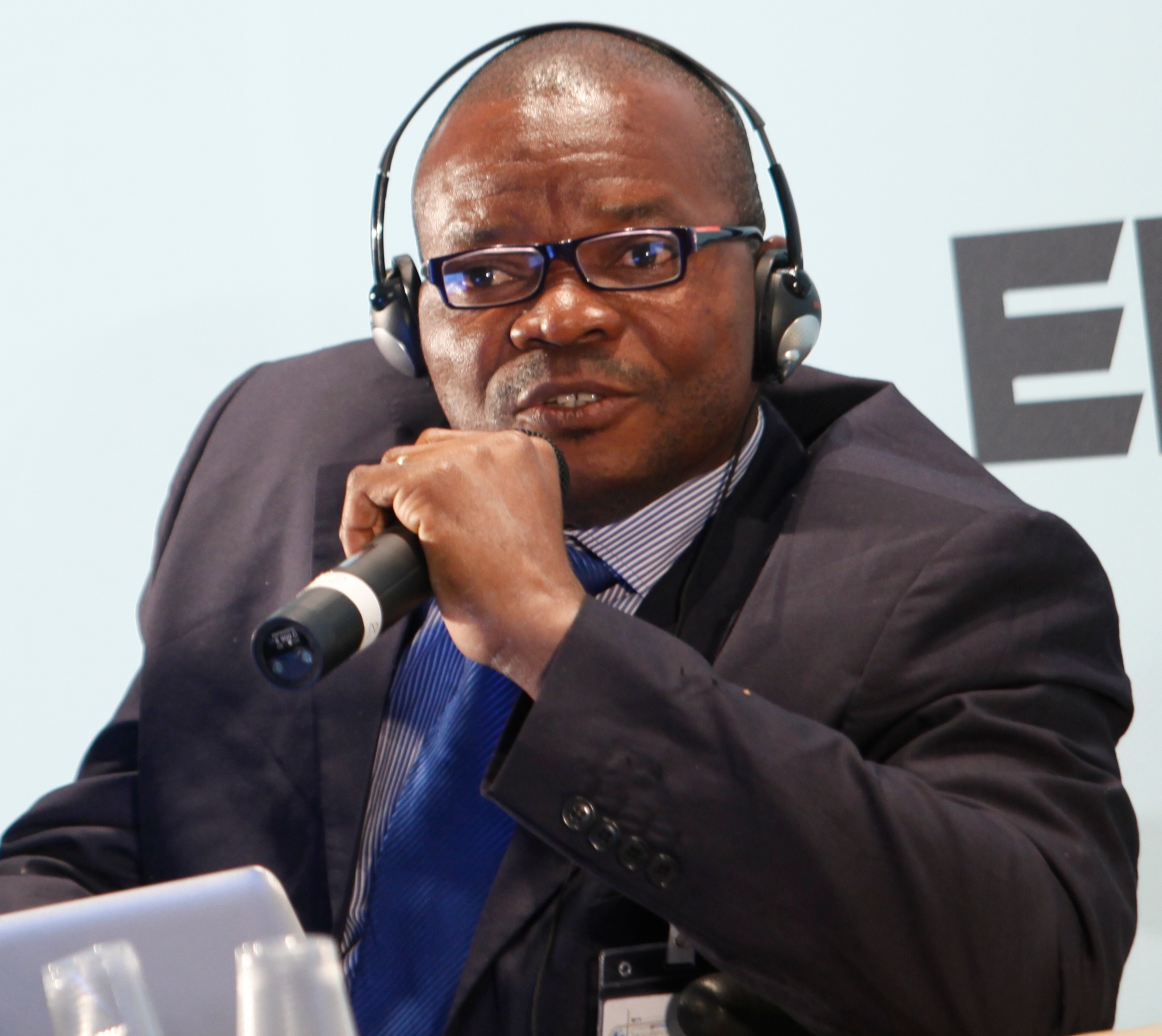 Marc Ona during the 5th EITI Global Conference in Paris, France